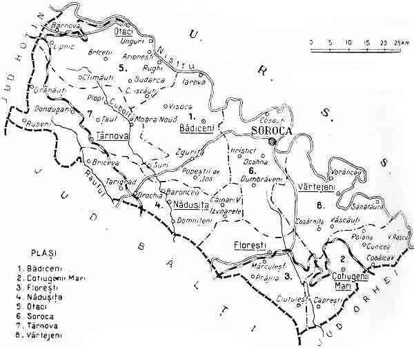 Map of Soroca interwar county, Kingdom of Romania (1938).